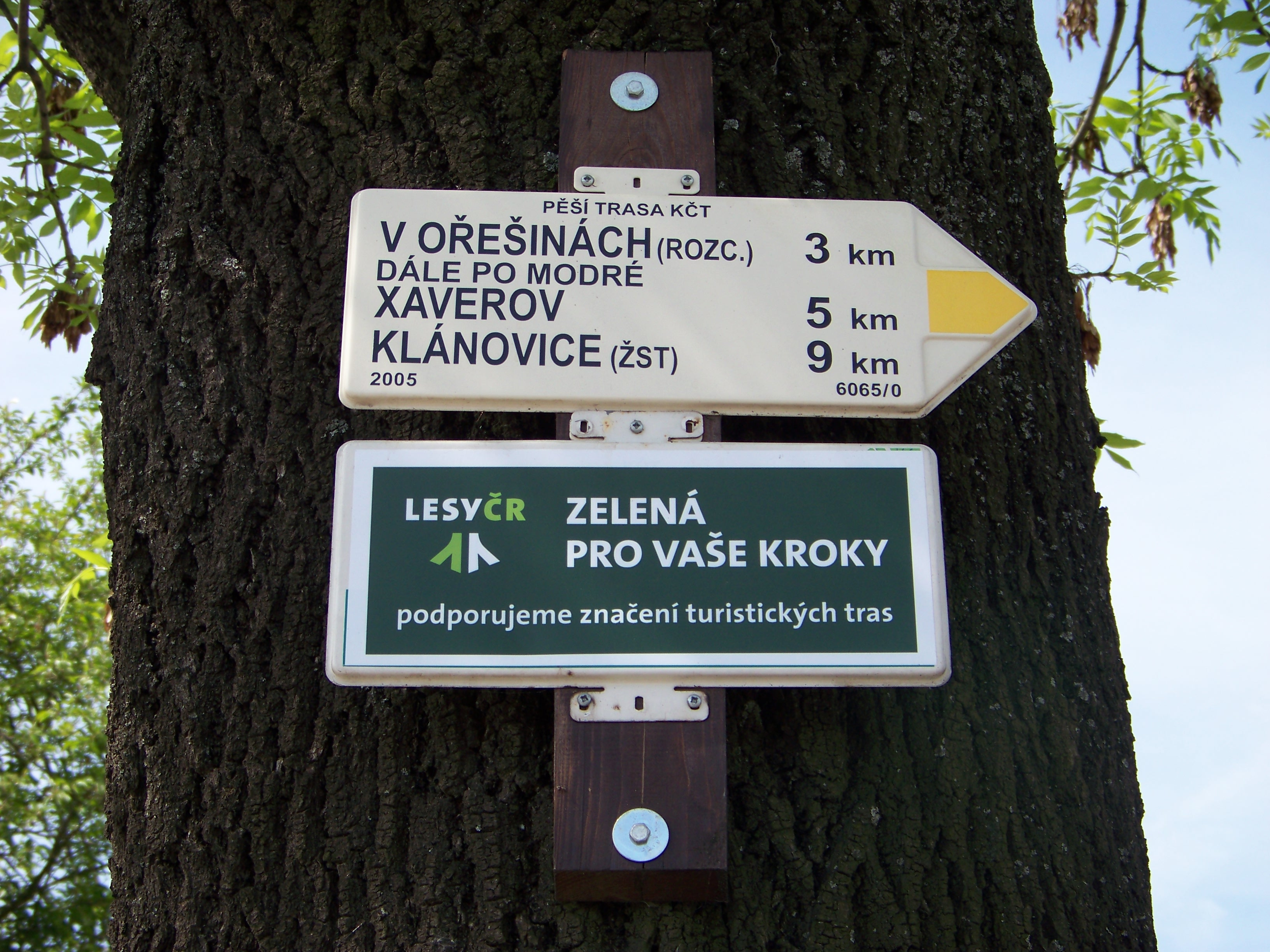 Prague-Dolní Počernice, Czech Republic. Českobrodská street, a hiking sign.